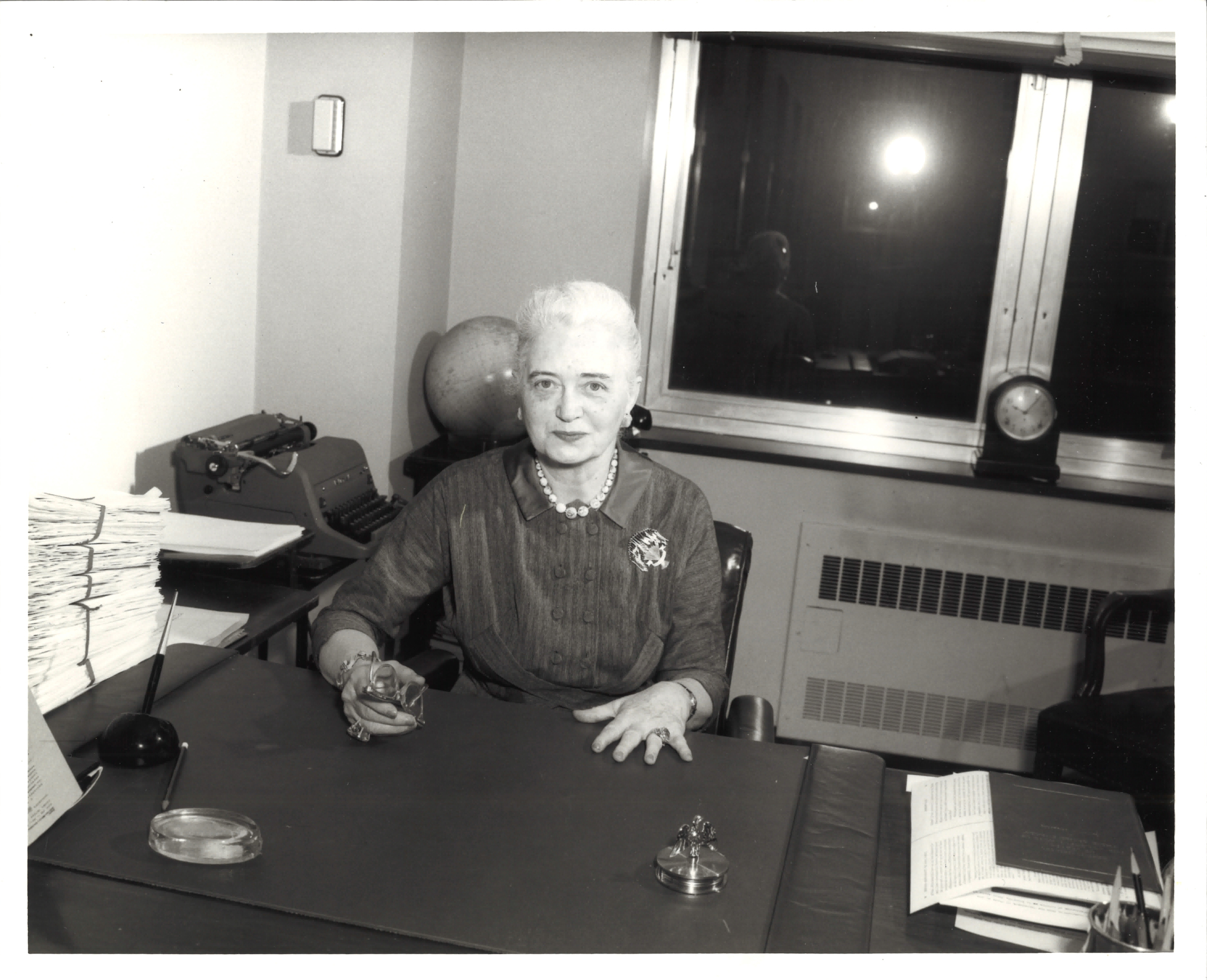 Marjorie Whiteman, Assistant Legal Adviser at the Department of State in the 1960s. Whiteman was the editor of the Digest of United States Practice in International Law from 1963-1971. The Digest traces its history back to the 1870s; it came to be known to many as “Whiteman’s” during her tenure. Photo credit: State Dept.